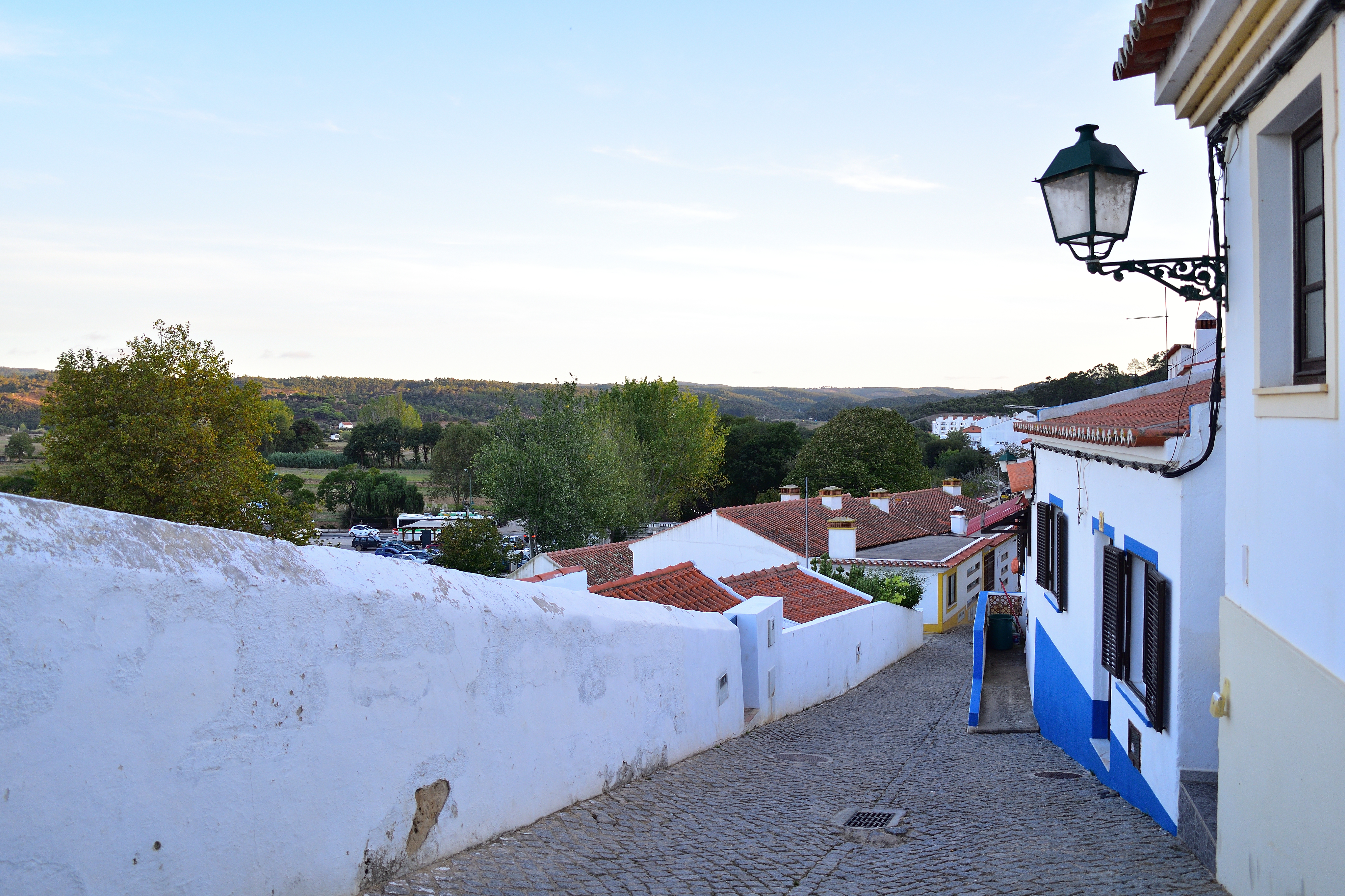 View of a street in Aljezur, Algarve, Southern Portugal.